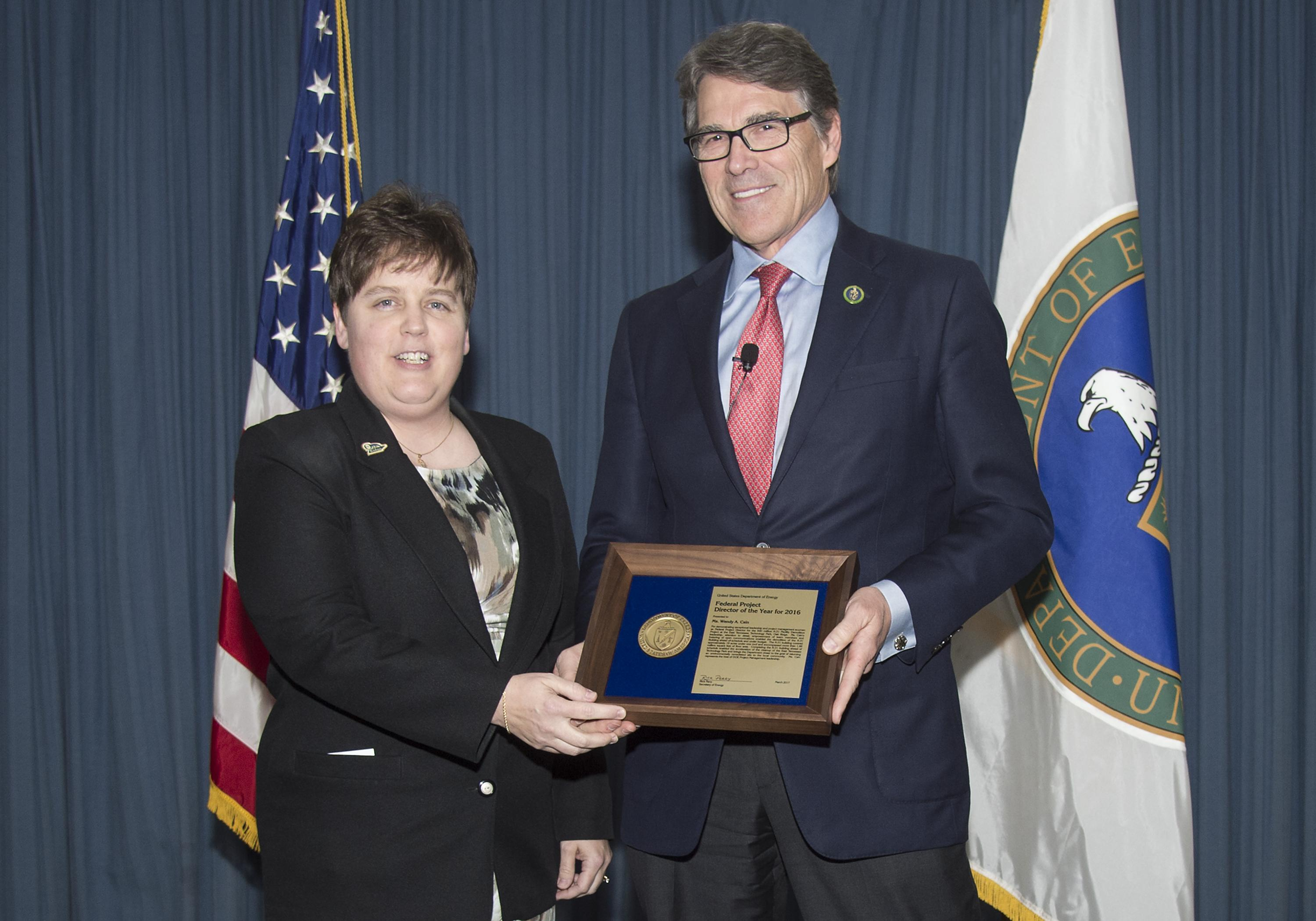 Secretary R. Perry presents Energy Project Management Awards at the Sheraton in Arlington, VA.